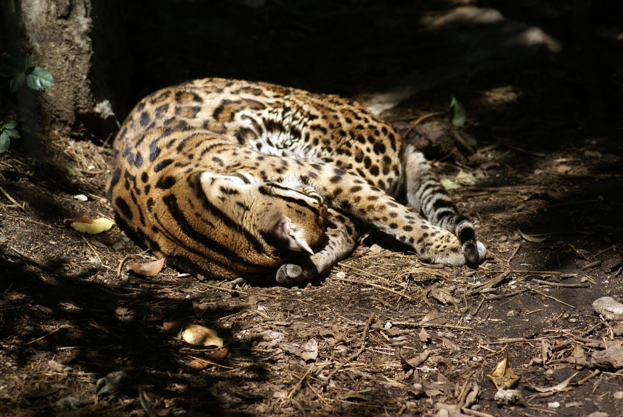 description: An ocelot getting some sleep at the Cincinnati Zoo and Botanical Garden. photographer: Paul Everett photographer_location: Indianapolis, IN photographer_url: [1] flickr_url: [2] taken:August 10, 2007